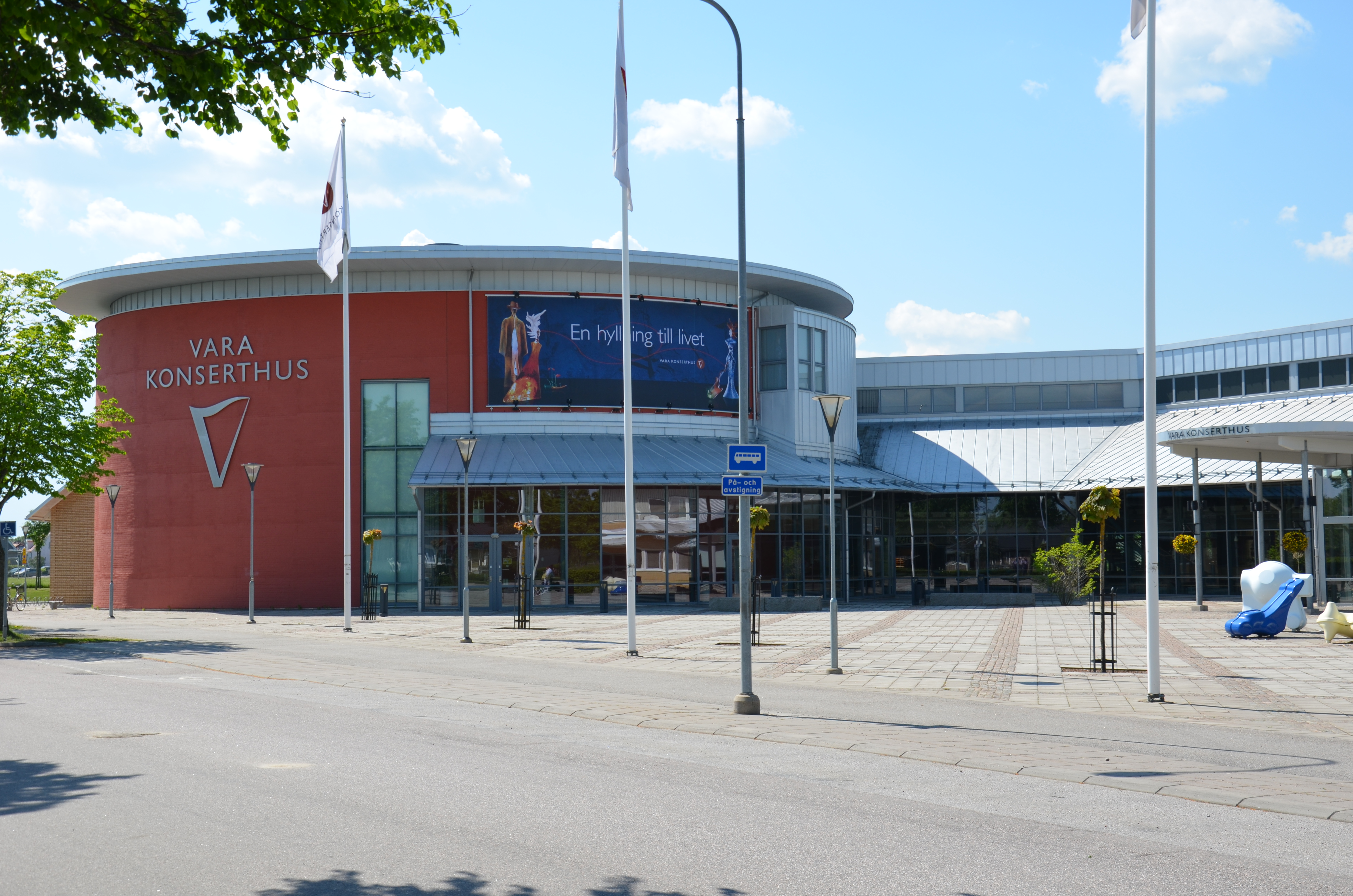 Vara Concert Hall